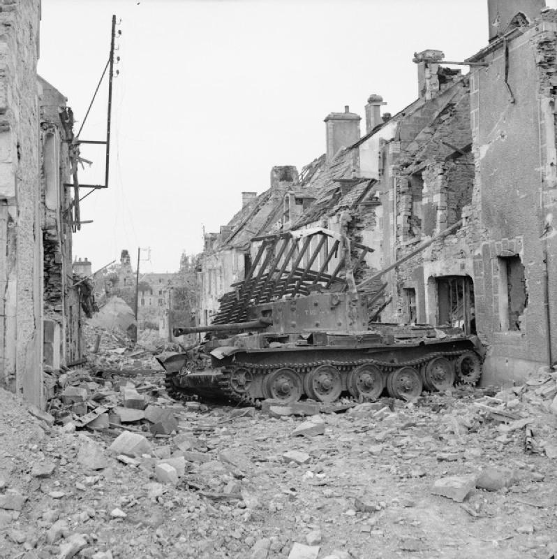 Knocked-out Cromwell observation post tank, commanded by Captain Paddy Victory of 5th Royal Horse Artillery, 7th Armoured Division, in Villers-Bocage, 5 August 1944. Captain Victory had attempted to do a neutral turn to escape more quickly, however a loose large paving slab jammed the track and essentially immobilised the tank.[1]